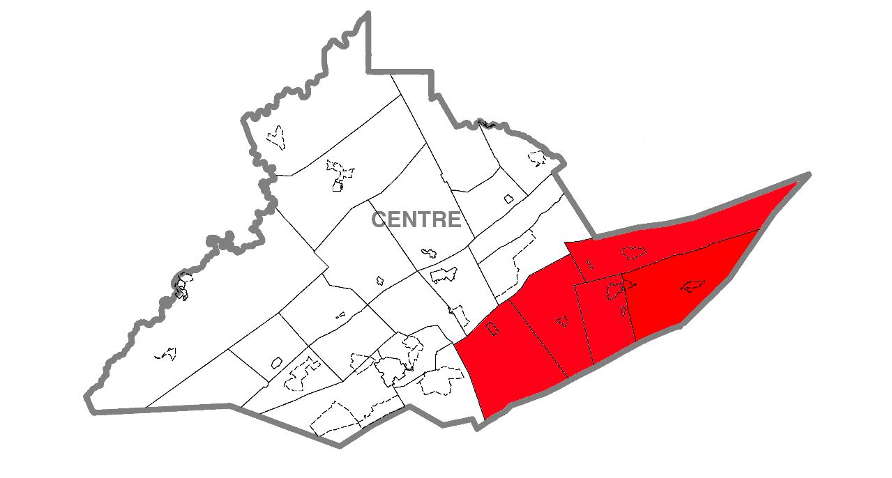 Map of Centre county marking penns valley